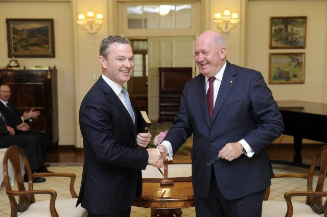 The Governor-General Sir Peter Cosgrove congratulates the Honourable Christopher Pyne MP on his appointment as Minister for Education and Training, at a ceremony at Government House, Canberra, ACT.